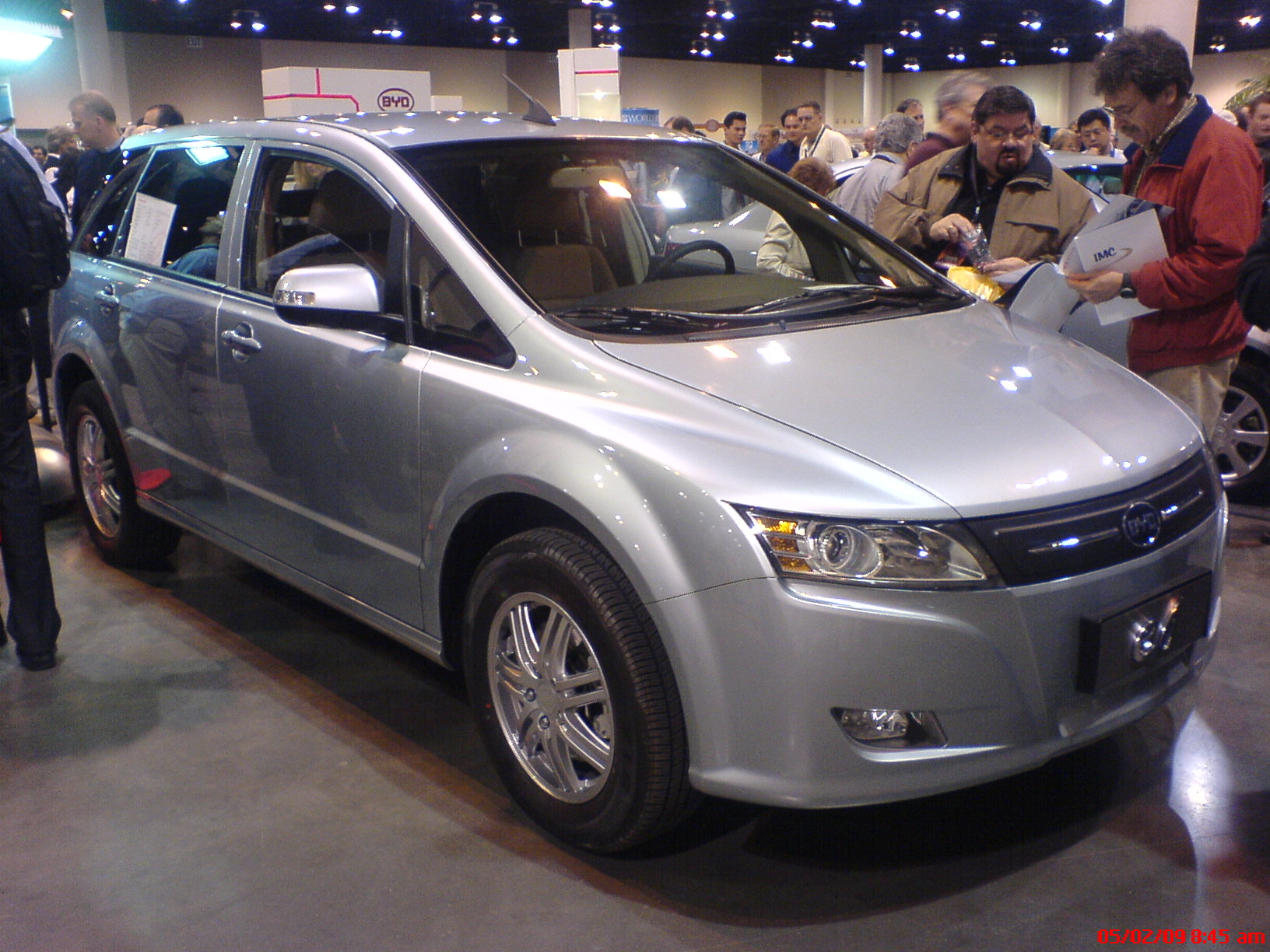 BYD e6 - the only one of three that had not been stripped apart